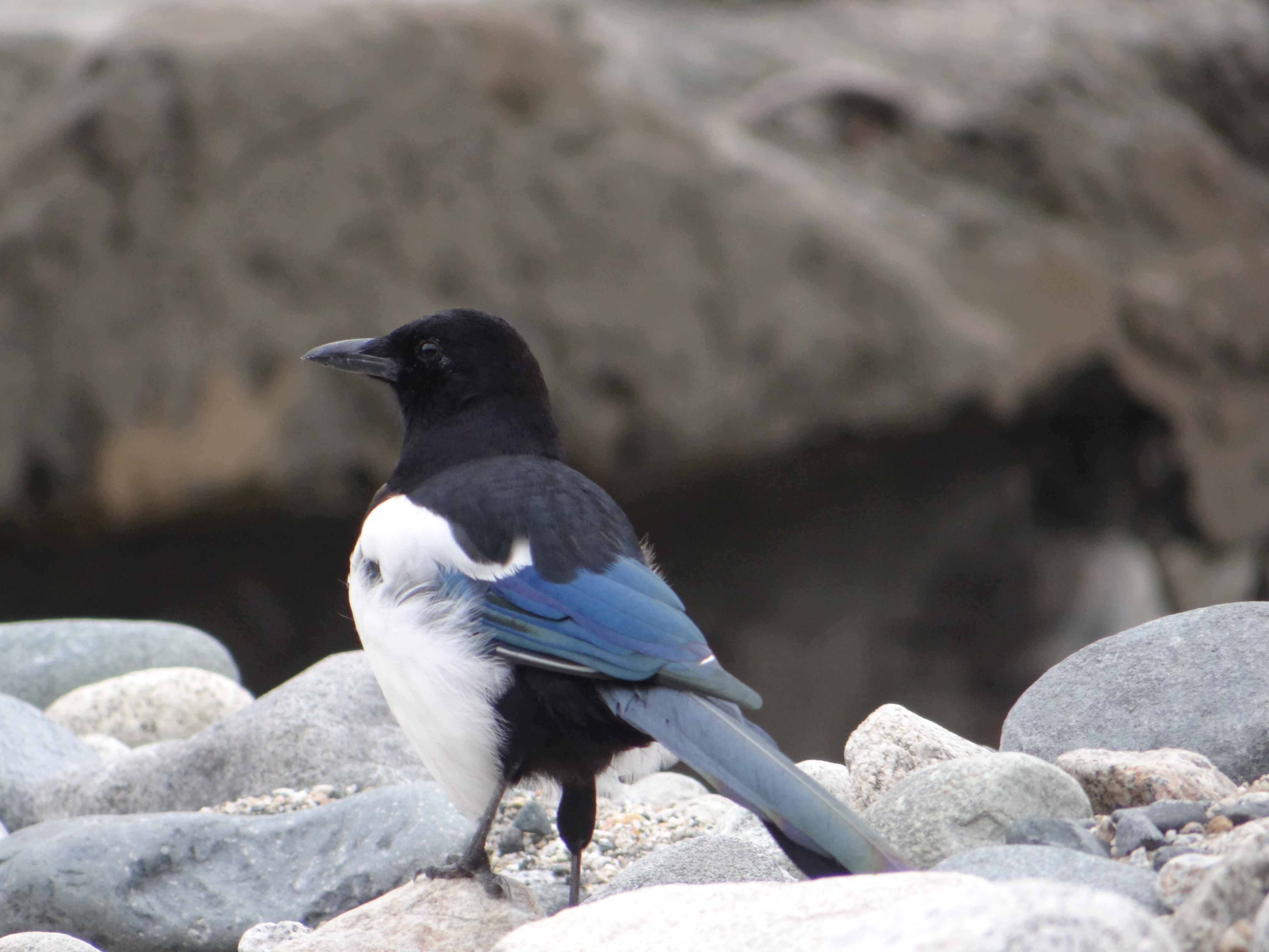 This is a bird commonly found in Ladakh, Eurasian Mapie ( P. p. bactriana )